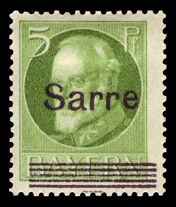 Bavarian stamp series Ludwig III of Bavaria with overprints “Sarre” Ausgabepreis: 5 Pfennig First Day of Issue / Erstausgabetag: 1. März 1920 Michel-Katalog-Nr: 18 (Saargebiet)